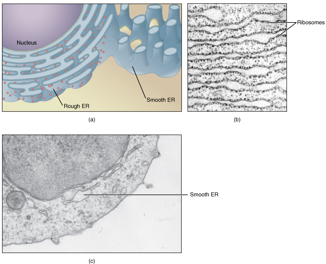 Caption: (a) The ER is a winding network of thin membranous sacs found in close association with the cell nucleus. The smooth and rough endoplasmic reticula are very different in appearance and function (source: mouse tissue). (b) Rough ER is studded with numerous ribosomes, which are sites of protein synthesis (source: mouse tissue). EM × 110,000. (c) Smooth ER synthesizes phospholipids, steroid hormones, regulates the concentration of cellular Ca++, metabolizes some carbohydrates, and breaks down certain toxins (source: mouse tissue). EM × 110,510. (Micrographs provided by the Regents of University of Michigan Medical School © 2012) URL: Version 8.25 from the Textbook OpenStax Anatomy and Physiology Published May 18, 2016